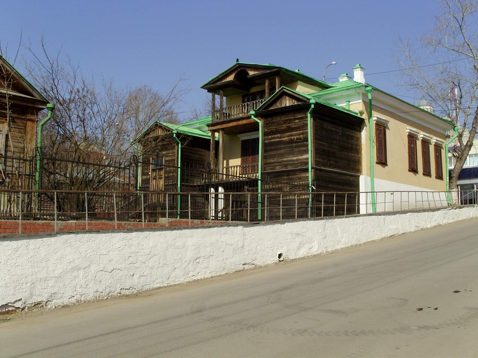 House Museum N.G. Chernyshevsky, Saratov